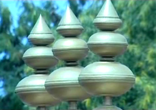 I took this photograph.